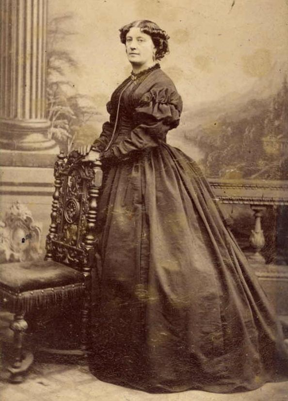 Madame Marie Carandini